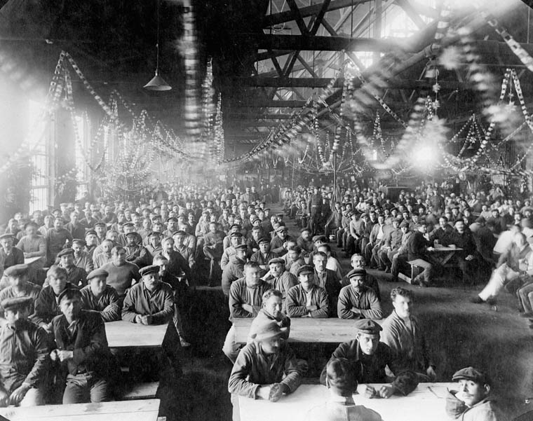 Christmas celebration at Internment Camp in Canada, W.W.I - 1916, Amherst Internment Camp (according to Tennyson B. Trotsky was interned here // The Chronicle Herald. — Halifax, 2015. — March); Credit: Internment Camps / Library and Archives Canada / C-014104; Restrictions on use: Nil; Copyright: Expired